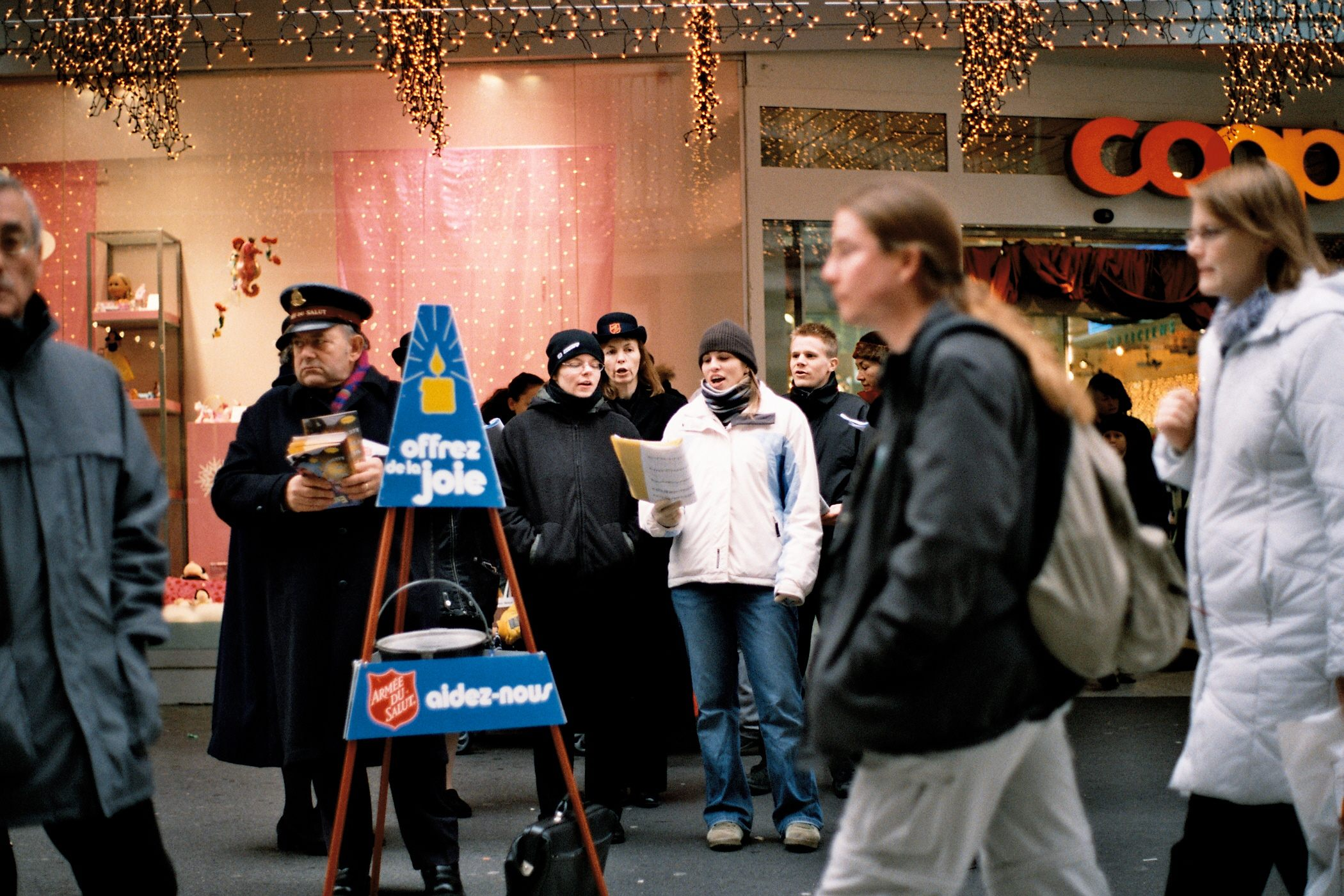 Salvation Army fundraising in Lausanne (CH)